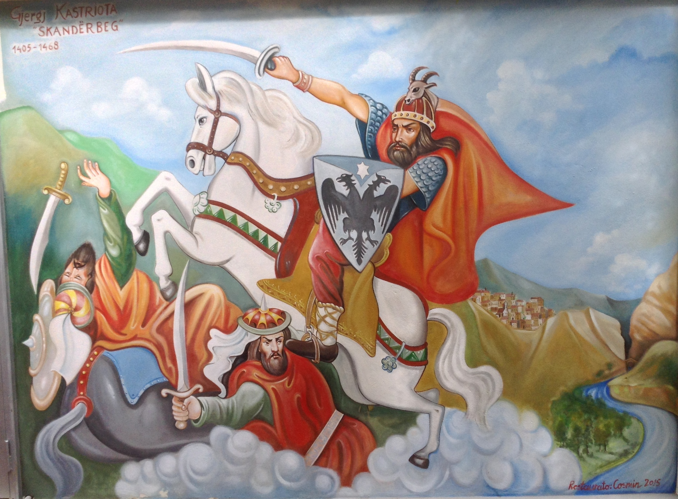 Skanderbeg in the battle against Ottomans; wall painting at the town hall of Civita, Cosenza, Italy